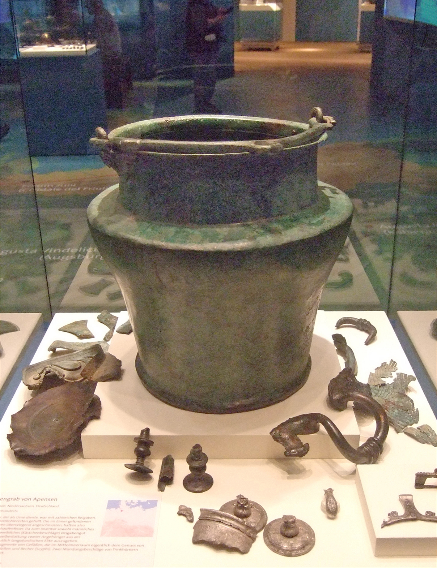 The Chieftain's Grave of Apensen Apensen, District of Stade, Lower Saxony, Germany The Roman cauldron that served as a funerary urn was filled with numerous belongings, cremation remains, and wood coal remnants. The vessel fragments found in the cauldron were largely melted and evidently had contact with the funeral pyre. The inventory included both male belongings (spurs) as well as female belongings (metal fittings for a wooden chest), suggesting that this was a double burial of two members of the Elbe Germanic elite, presumably Lombard. Also included were fragments of vessels that, in the Mediterranean region, were typically used for imbibing wine, such as sieves, dippers, and cups (scyphi). Two metal fittings for the mouthpieces of drinking horns document the consumption of mead. Photographed while on display from 22 August 2008 to 11 January 2009 in the exhibition "Die Langobarden. Das Ende der Völkerwanderung" at the Rheinisches LandesMuseum Bonn. On loan from the Schwedenspeicher Museum, Stade.